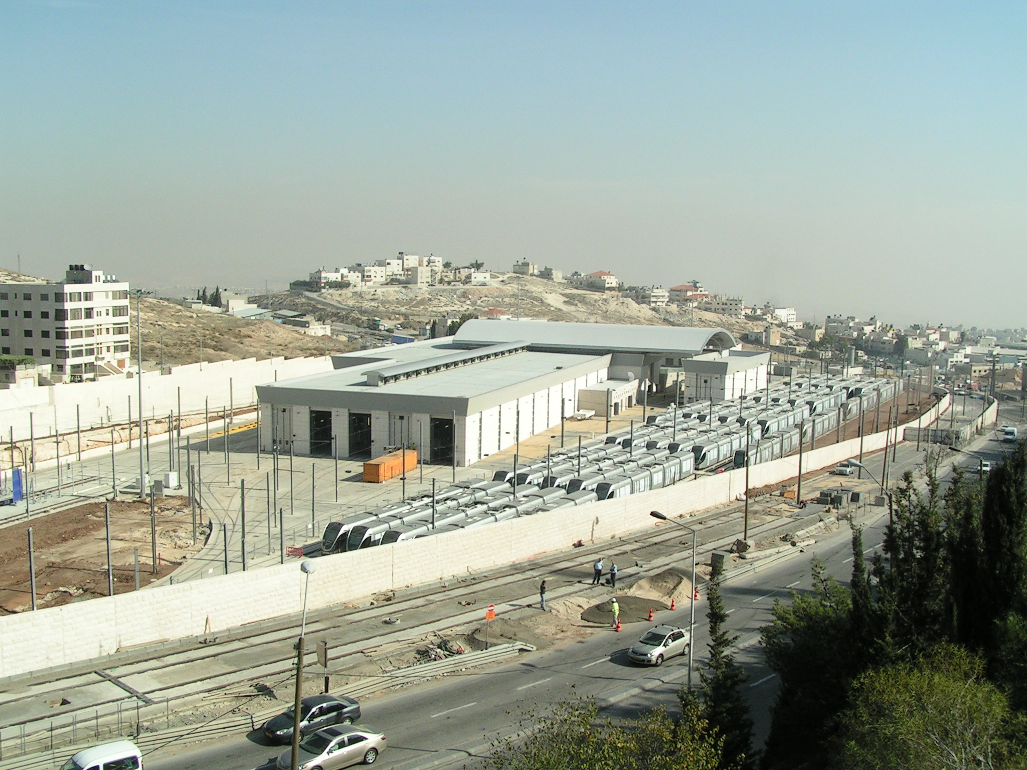 Jerusalem Light Rail depot in the French Hill